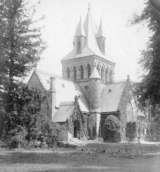 Trinity Church, 33 Mercer Street, before 1914. The church was built in 1868, and was designed by architect Richard Mitchell Upjohn. In this photograph, the church still has its original tower. The tower was replaced with a taller one during extensive renovations by architect Ralph Adams Cram in 1914-1915.